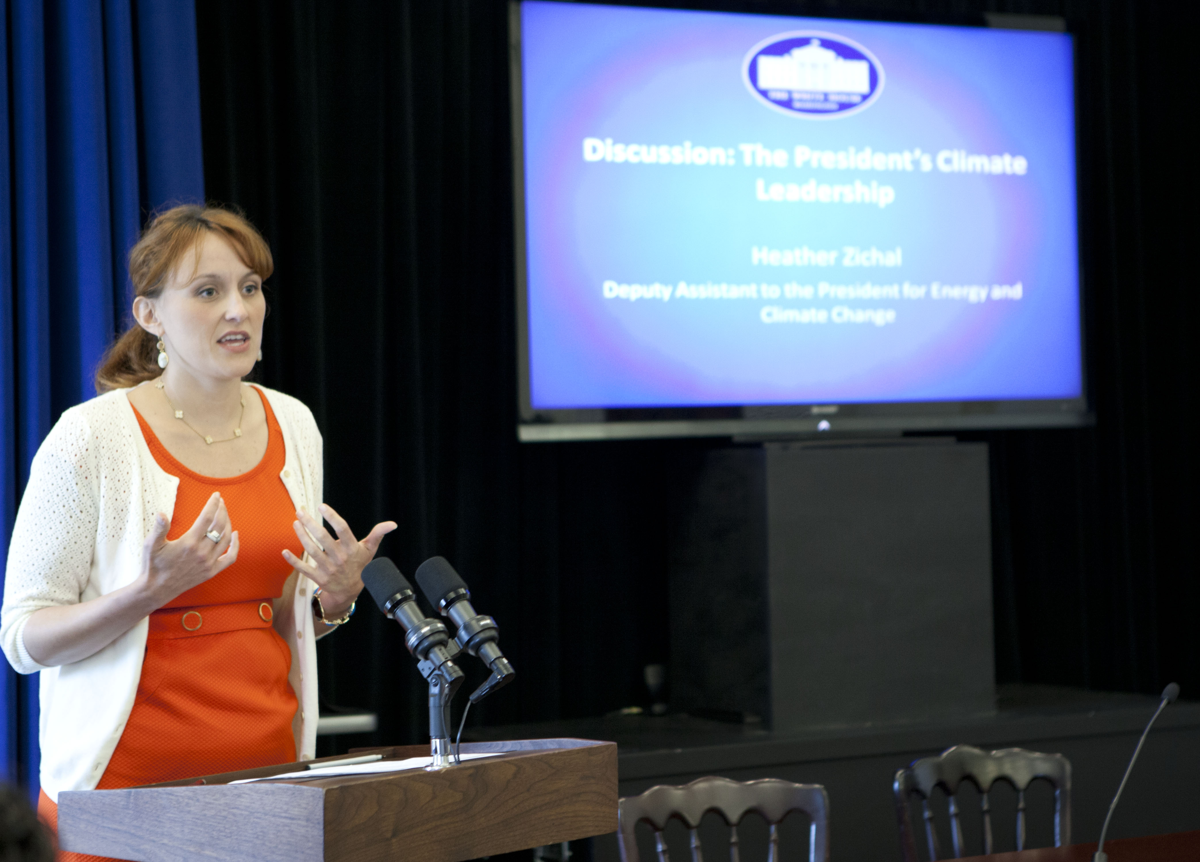 Heather Zichal, Deputy Assistant to the President for Energy and Climate Change, spoke on the President's Climate Leadership.